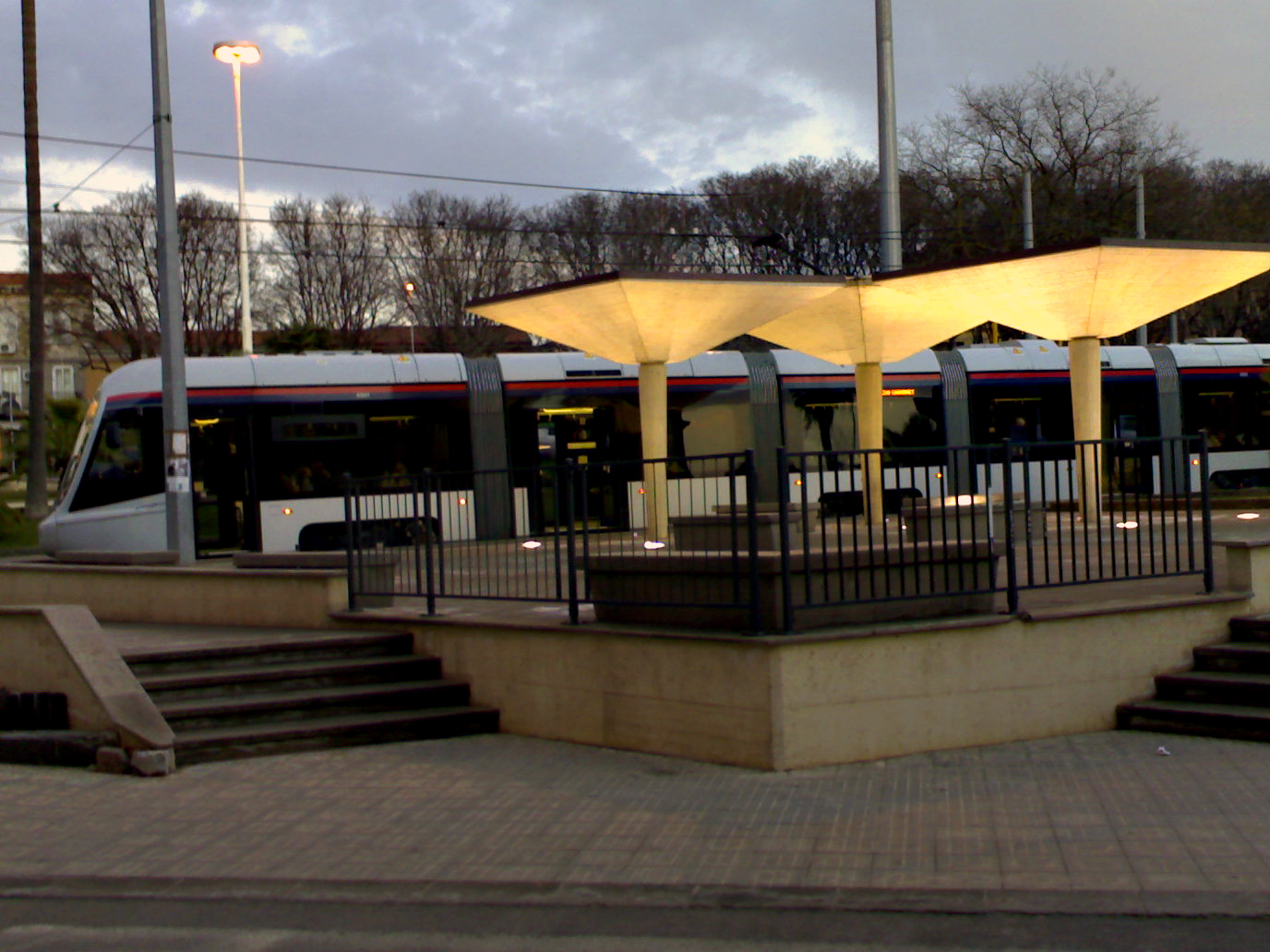 Rapid tramway of Sassari - Sardinia